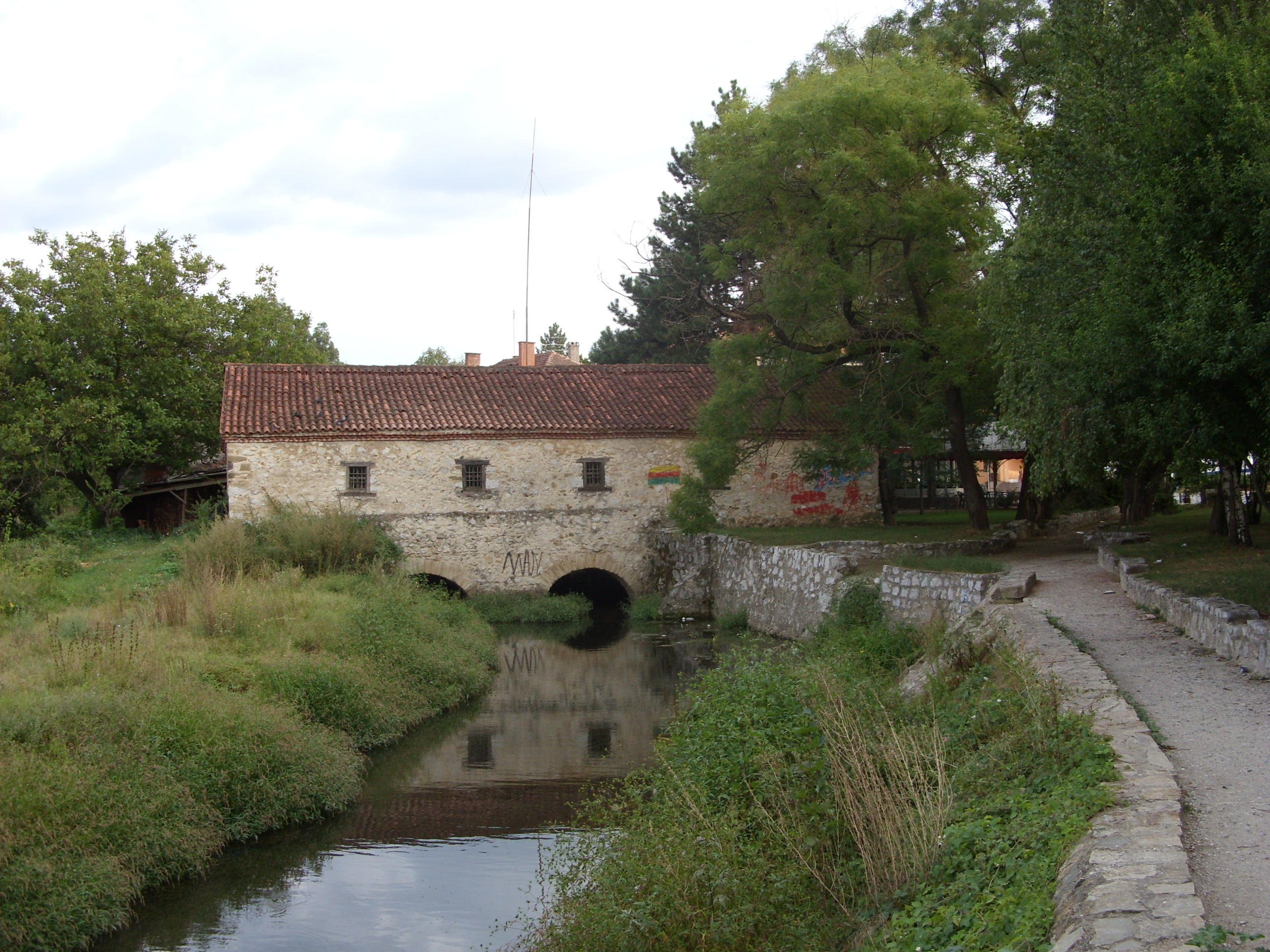 Old mill and Resava river in Despotovac, Serbia. Hornjoserbsce: Stary młyn a rěčka Resava w serbiskej Despotovače.